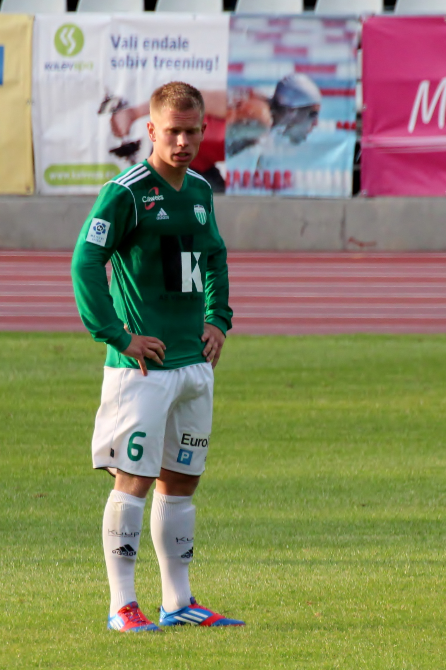 FC Levadia player Ilja Antonov playing against Nõmme Kalju